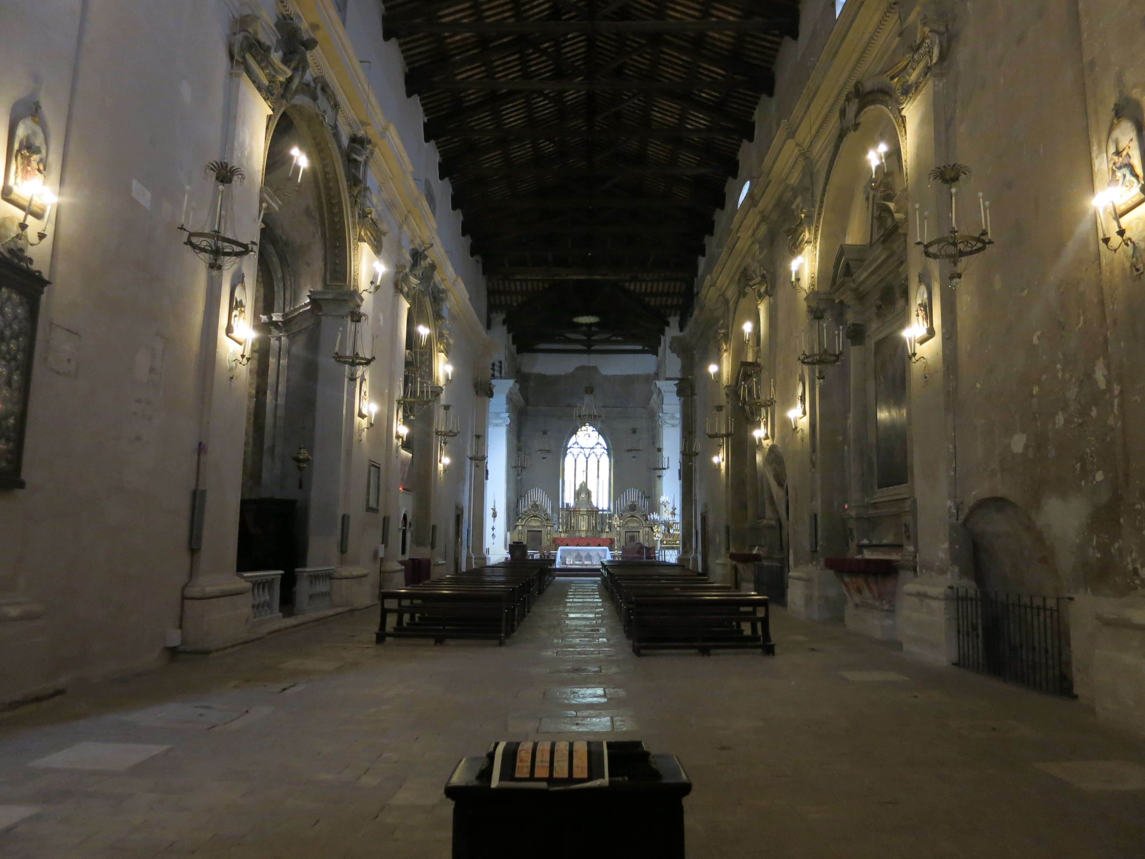 Interior of Saint Francis church - Rieti, central Italy